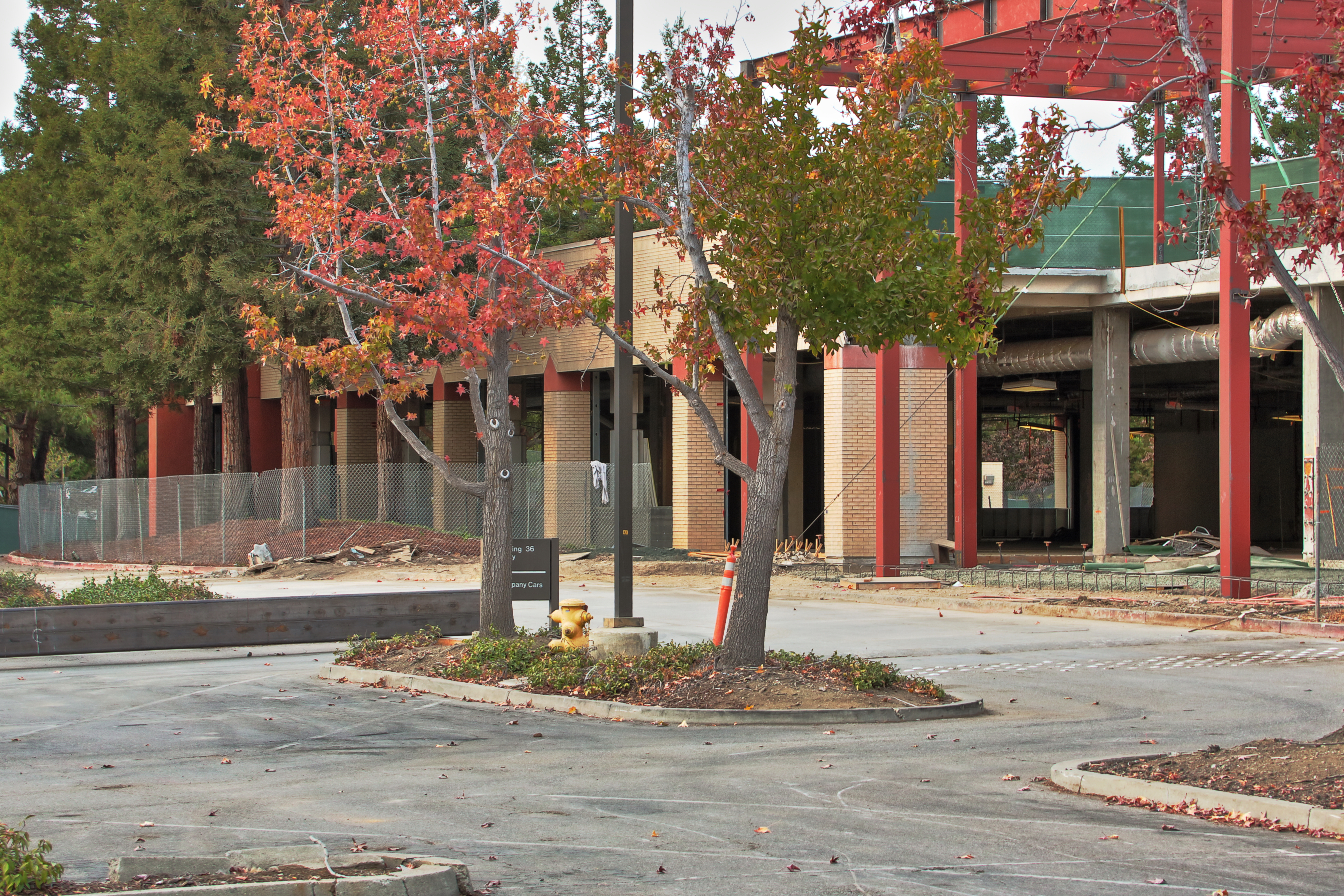 Another view of the South side of the abandoned Mayfield Mall building. This part of the building held a bookstore called B Dalton Bookseller when the mall was open for business. The orange steel girders on the right of the photo were an overhang that covered the mall's side entrance.